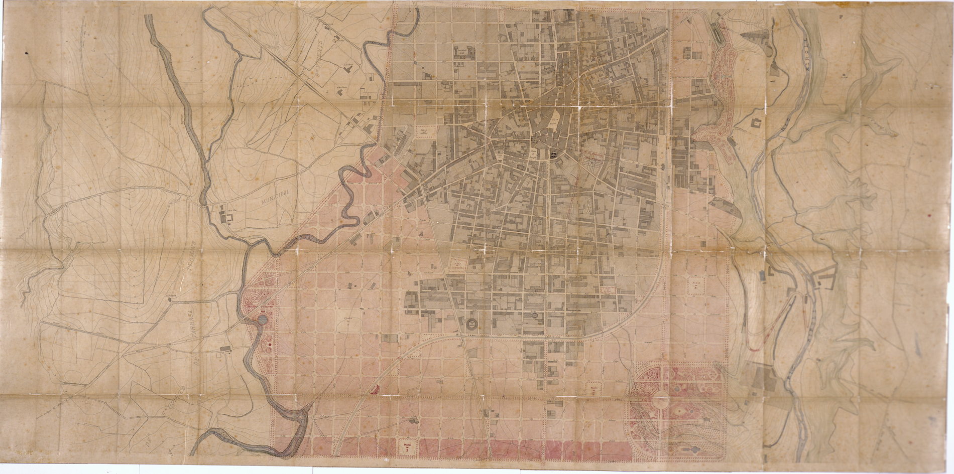 Pla Topogràfic Sabadell